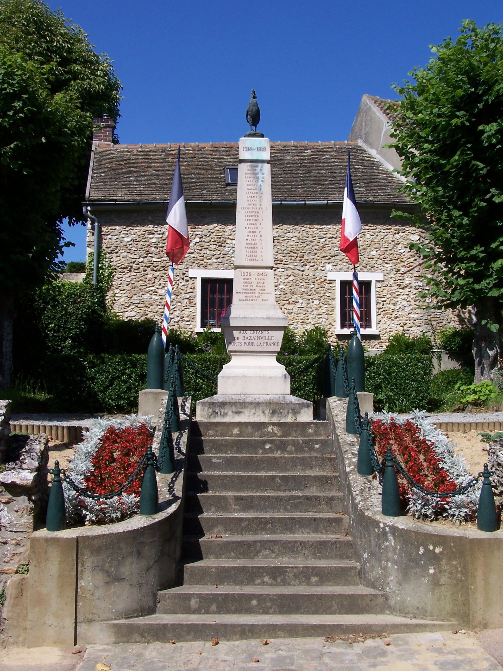 War memorial of Bazainville (Yvelines, France)